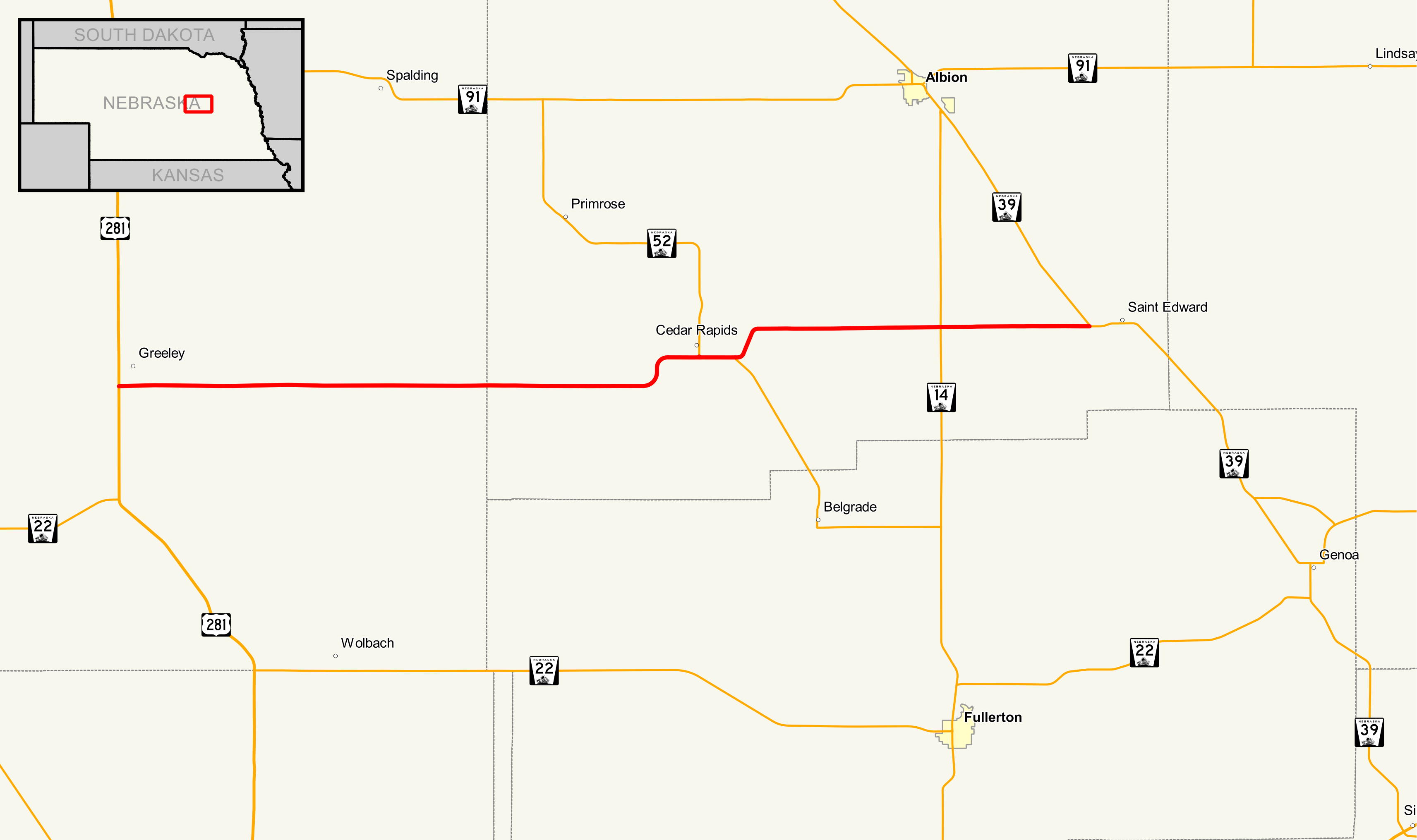 Map of Nebraska Highway 56 Data Sources: Nebraska Highways - - Dec 2016 Nebraska County Boundaries - - Dec 2016 Nebraska City Boundaries - - Dec 2016 This PNG graphic was created with QGIS